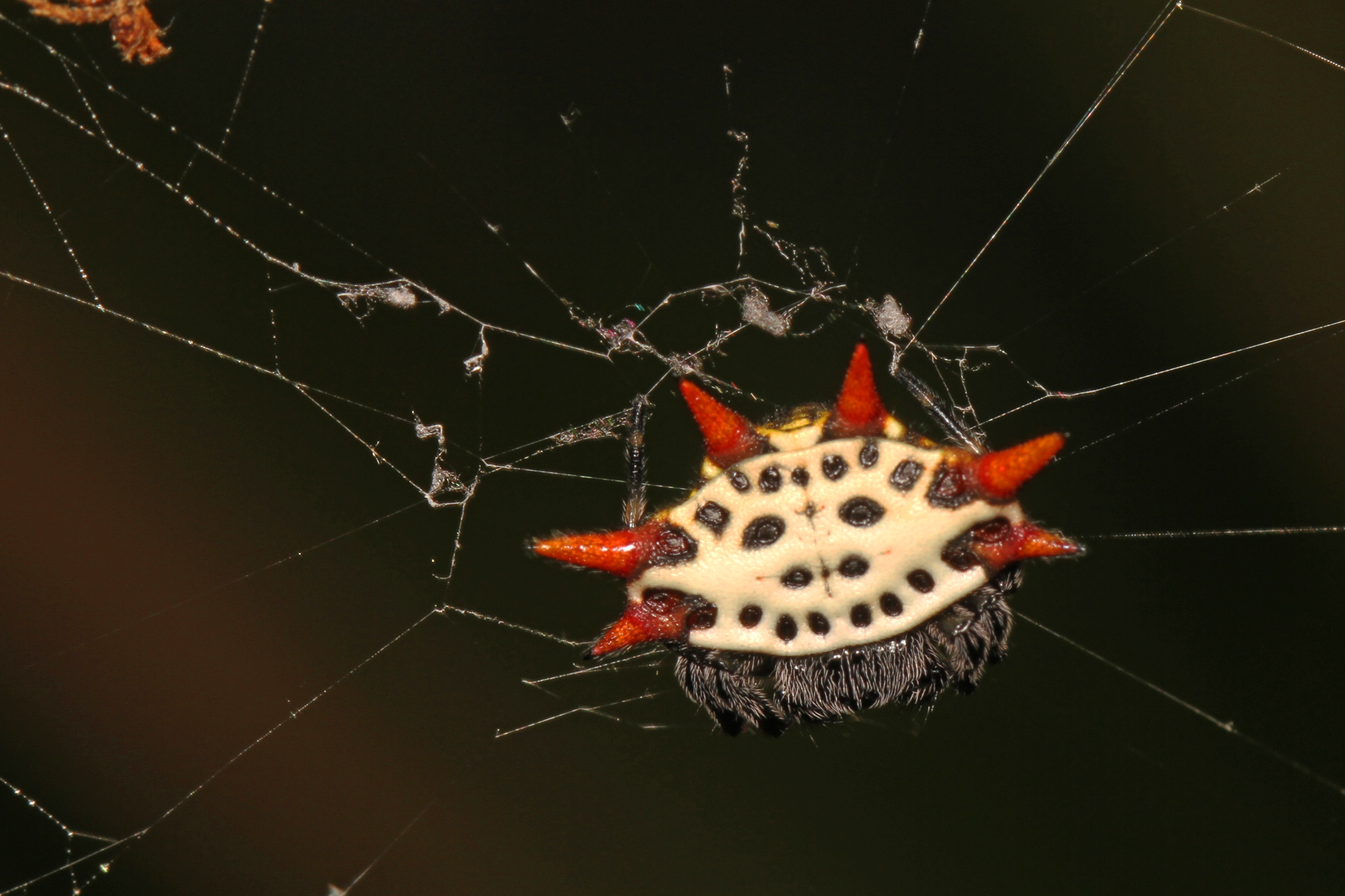 Spinybacked Orbweaver - Gasteracantha cancriformis, Sapelo Island, Georgia. I don't know how many pictures I've attempted of these gorgeous spiders as they swayed back and forth in the wind. Finally, I got one acceptable shot.